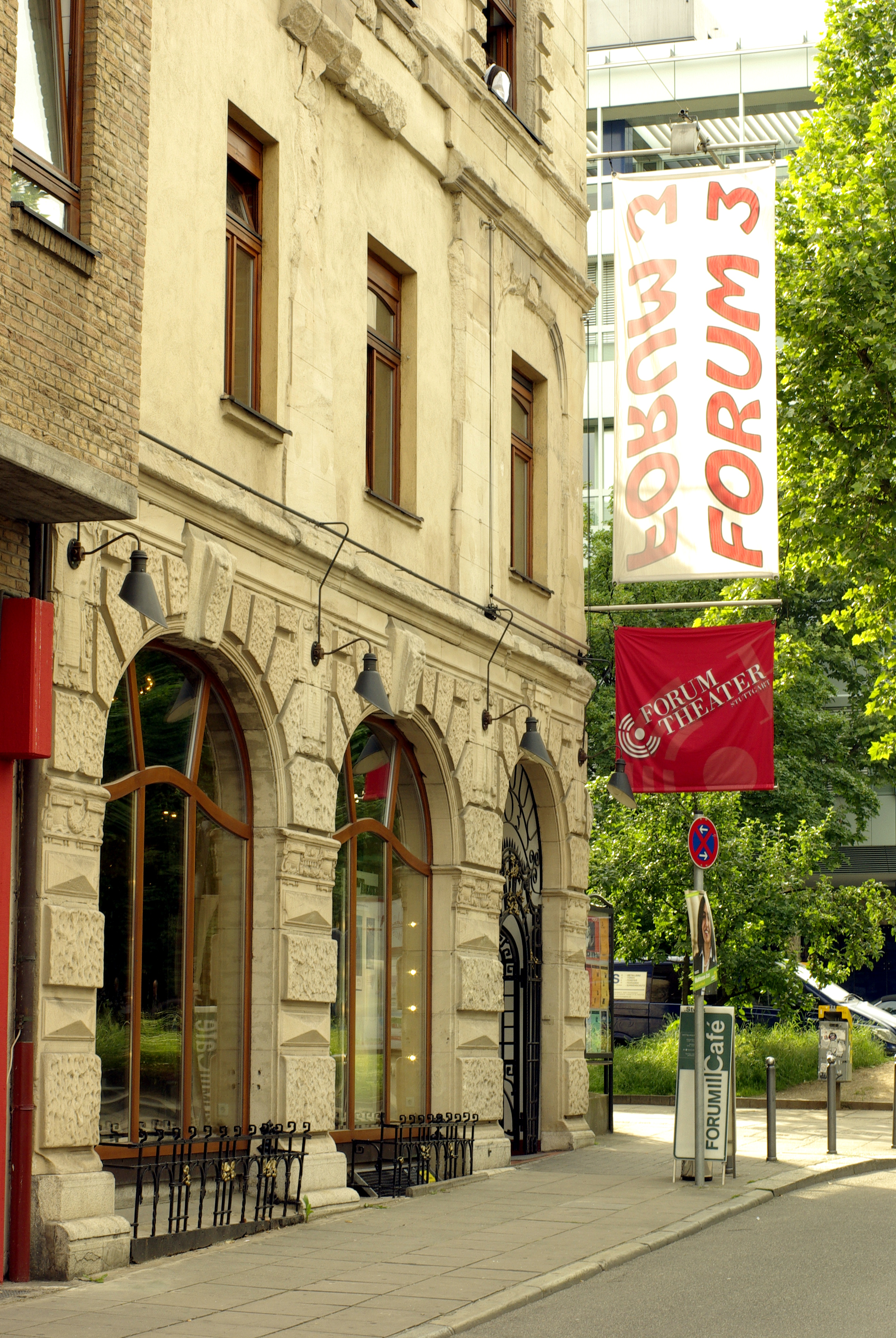 Front view Forum 3 Stuttgart, Summer 2009